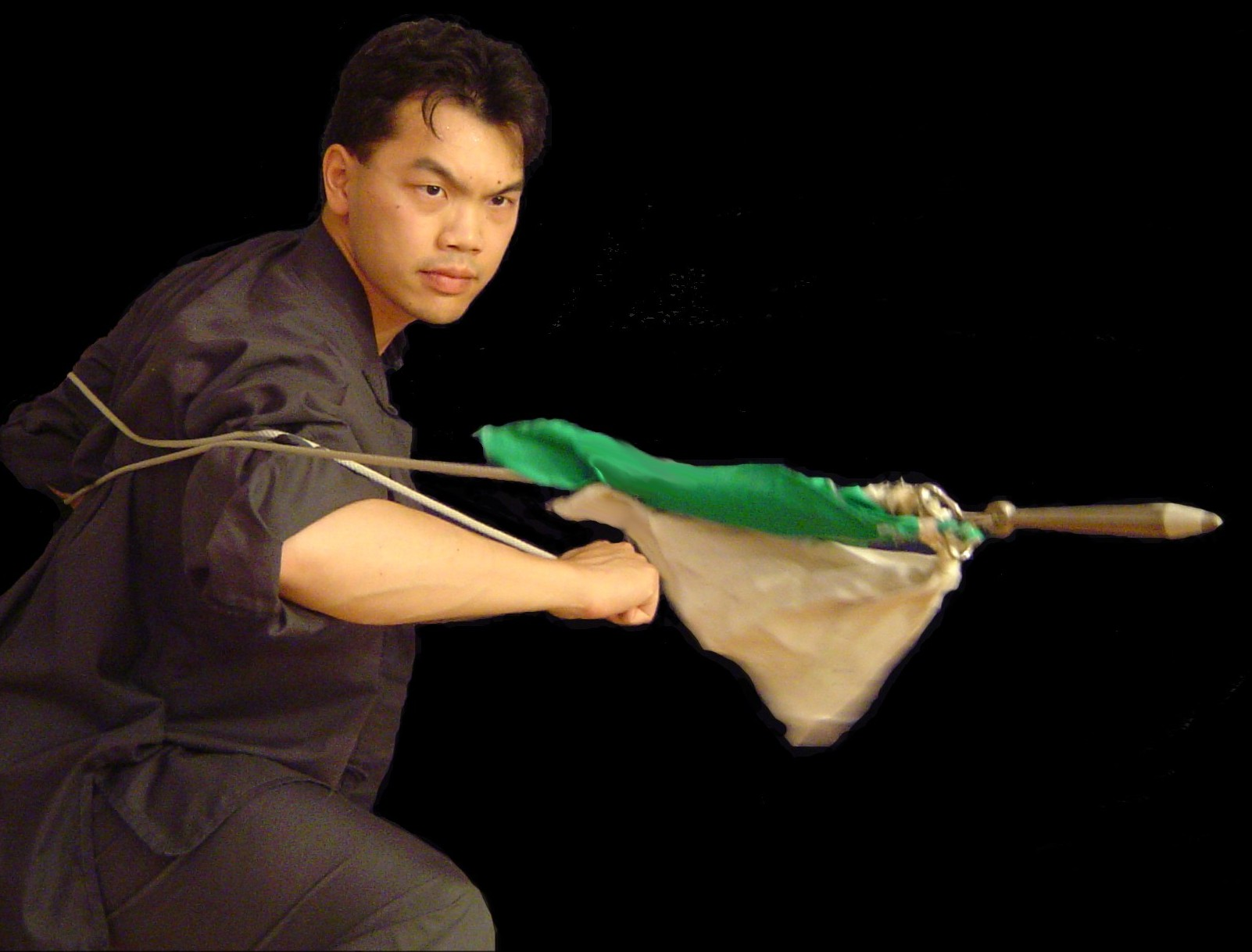 Eric Shou-Li Yao demonstrates a rope dart technique